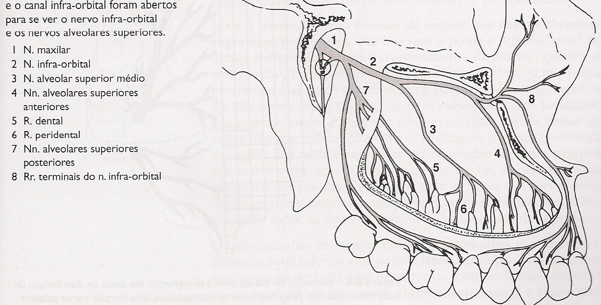 Nervo infra-orbital Alveolares superiores anteriores Nervo alveolar Nervos alveolares superiores posteriores Nervo palatino maior Nervo nasopalatino Nervos palatinos menores